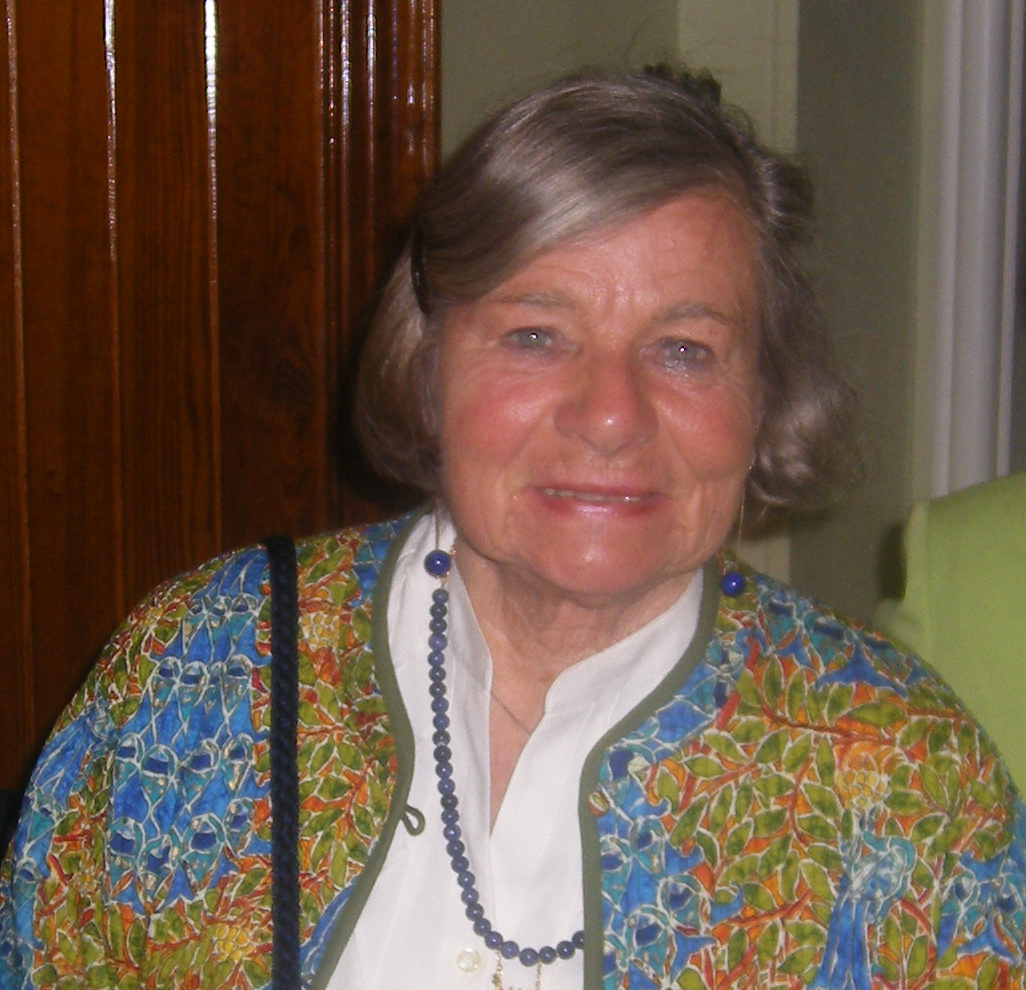 Imogen Stuart, picture taken at Mary Immaculate College, Limerick.